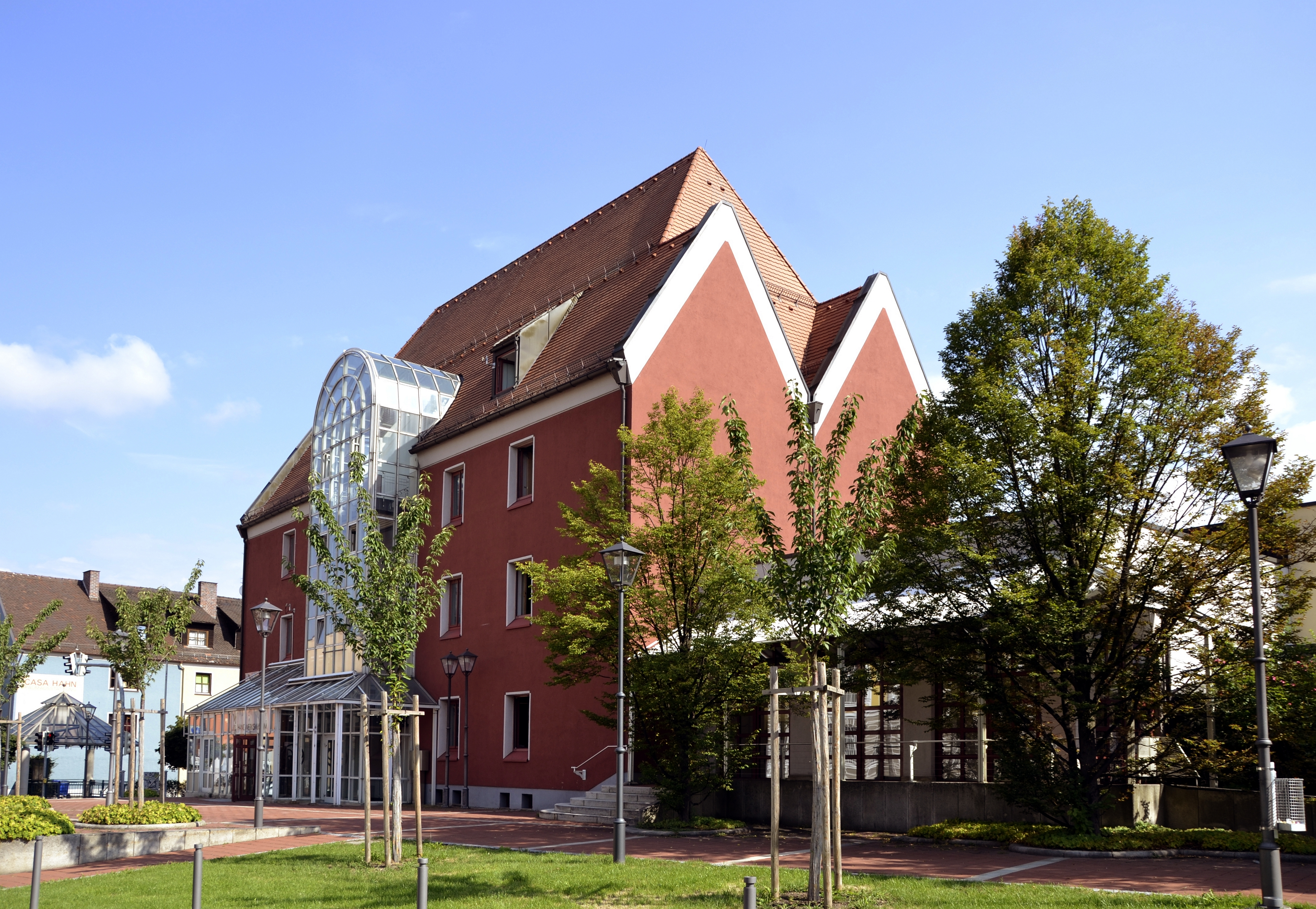 Craft museum in Deggendorf, Germany.